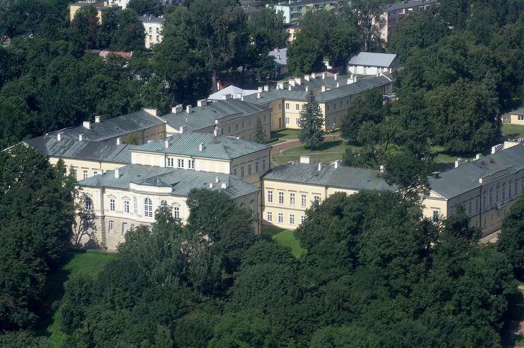 Aerial view of Czartoryski Palace in Pulawy, Poland